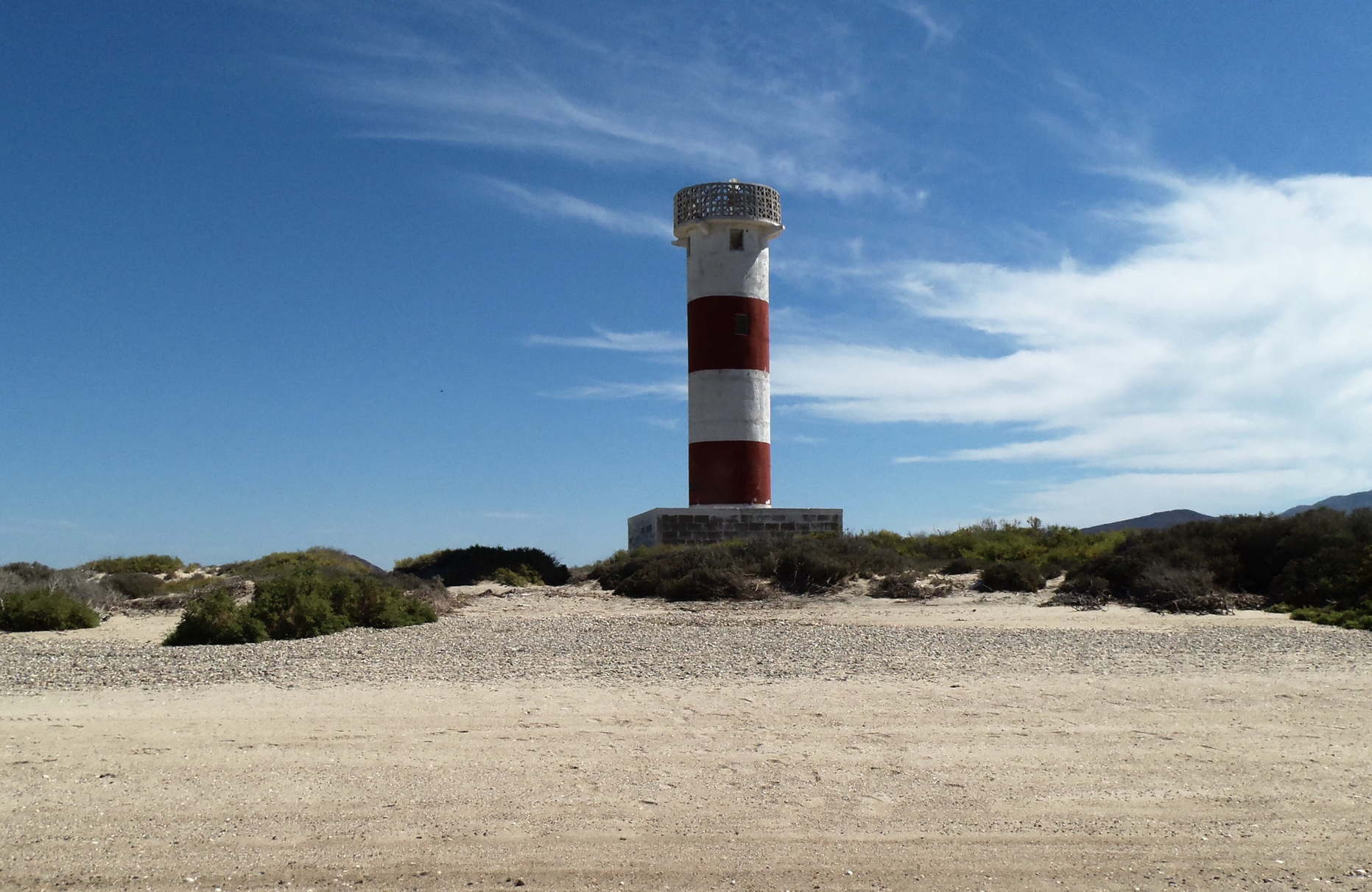 Faro Punta Arenas lighthouse is located at the entrance to the harbor on Punta Arenas, a sand spit partially sheltering the waterfront of Bahía de los Ángeles, Ensenada Municipality, Baja California, Mexico.